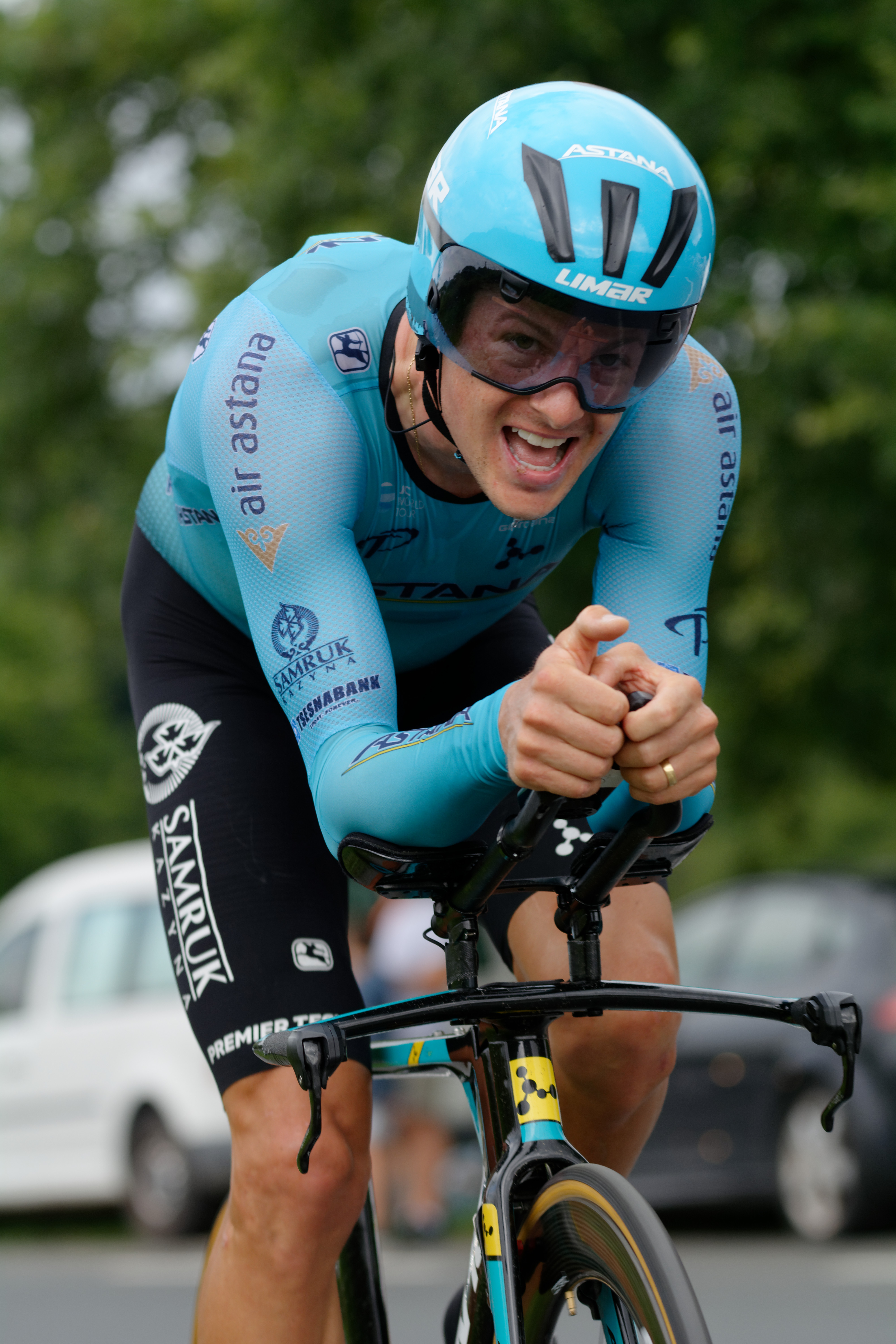 2018 Tour de France